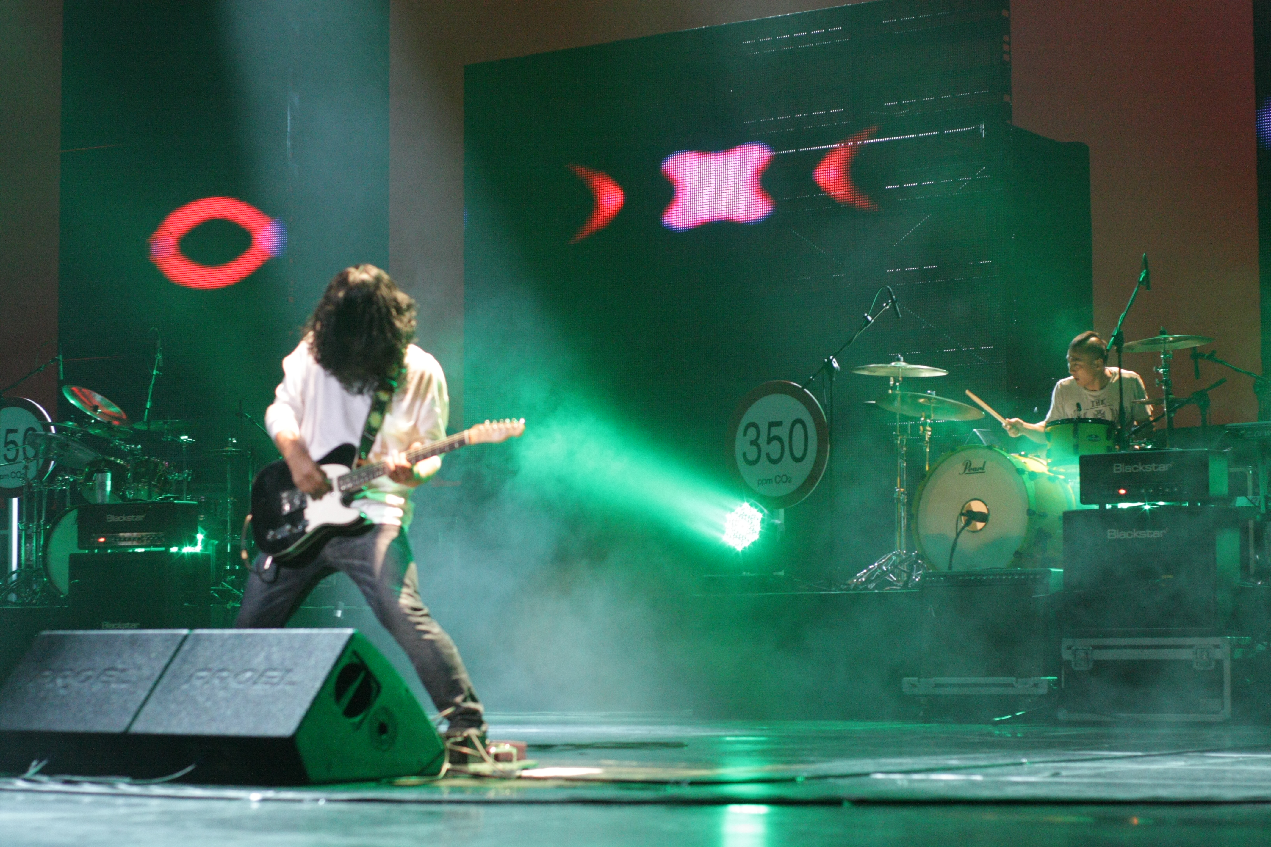 YB (band)